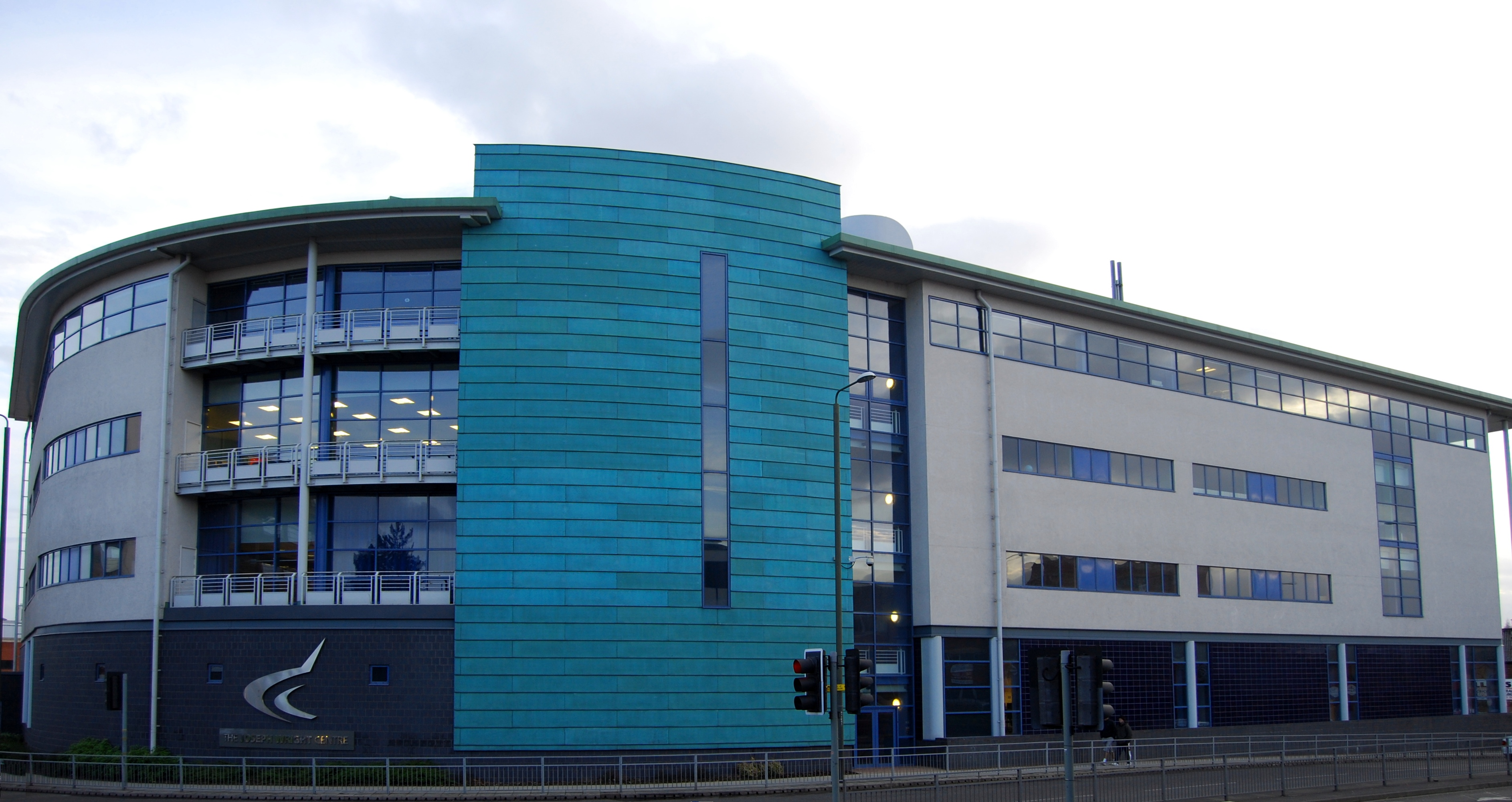 Derby College - The Joseph Wright Centre, St Alkmund's Way, Derby